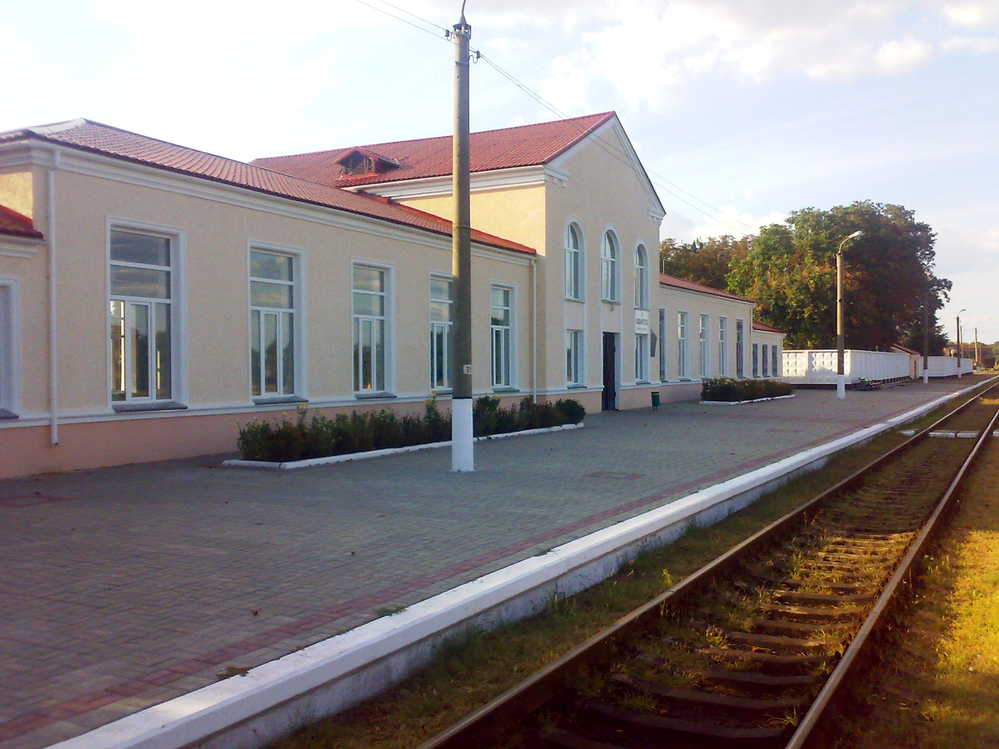 Train station in Novomyrhorod (Kirovohrad Oblast, Ukraine)